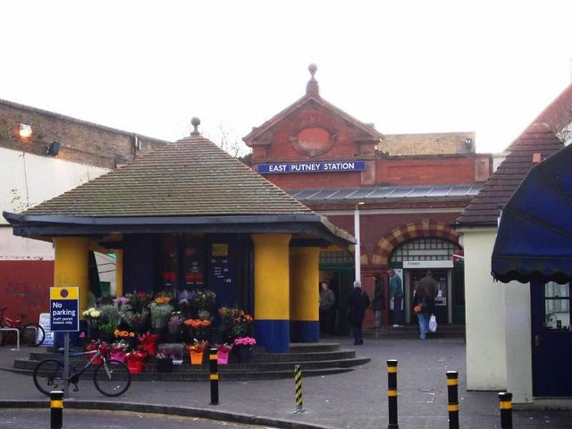 East Putney station, SW15